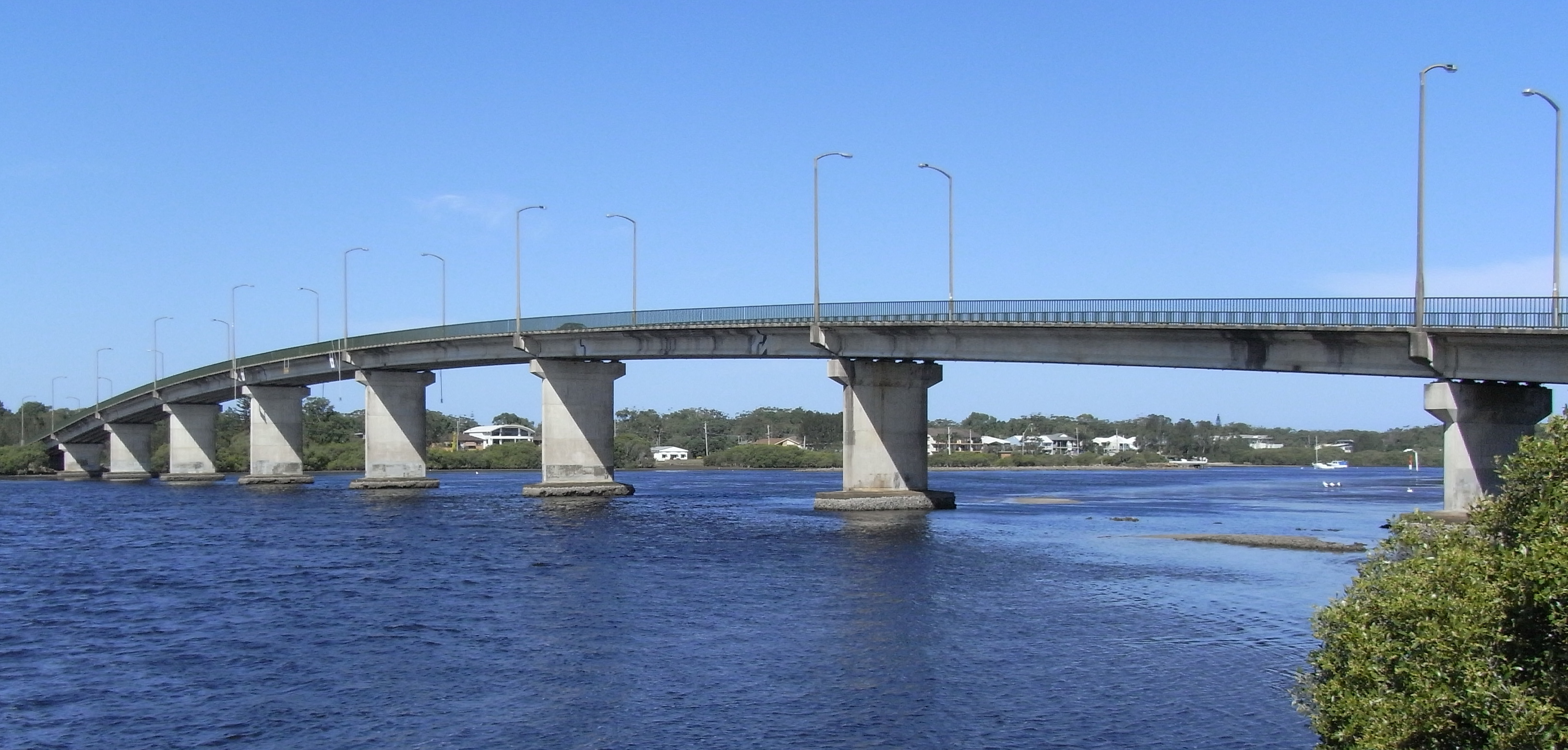 The Singing Bridge connecting Tea Gardens and Hawks Nest, New South Wales, Australia, viewed from the southwestern end.